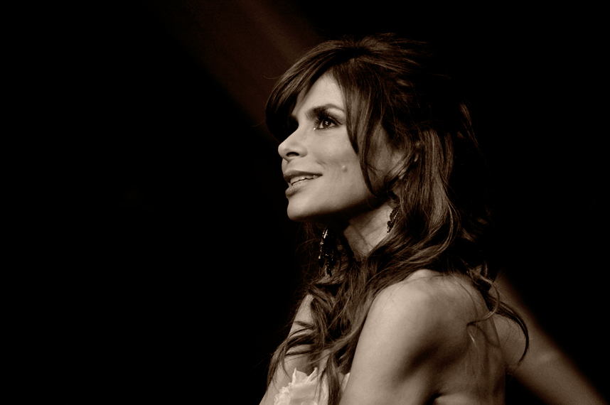 Paula Abdul spotted at the Live to Dance finale on February 9, 2011